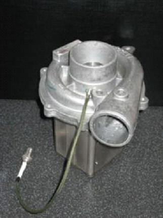 Aeristech prototype electric compressor